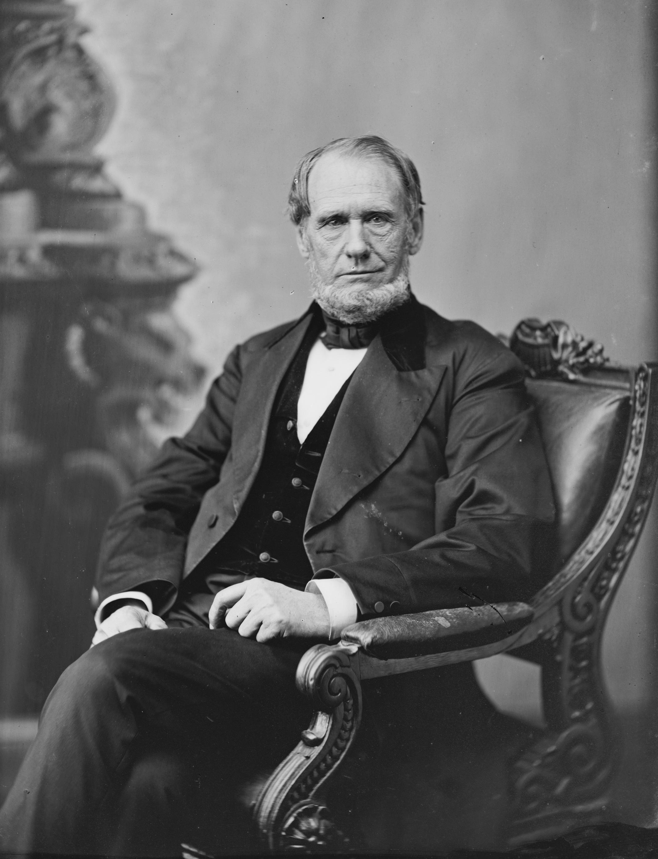 Isaac P. Christiancy. Library of Congress description: "Christiancy, Hon. Isaac Peckham (U.S. Senator from Michigan)"